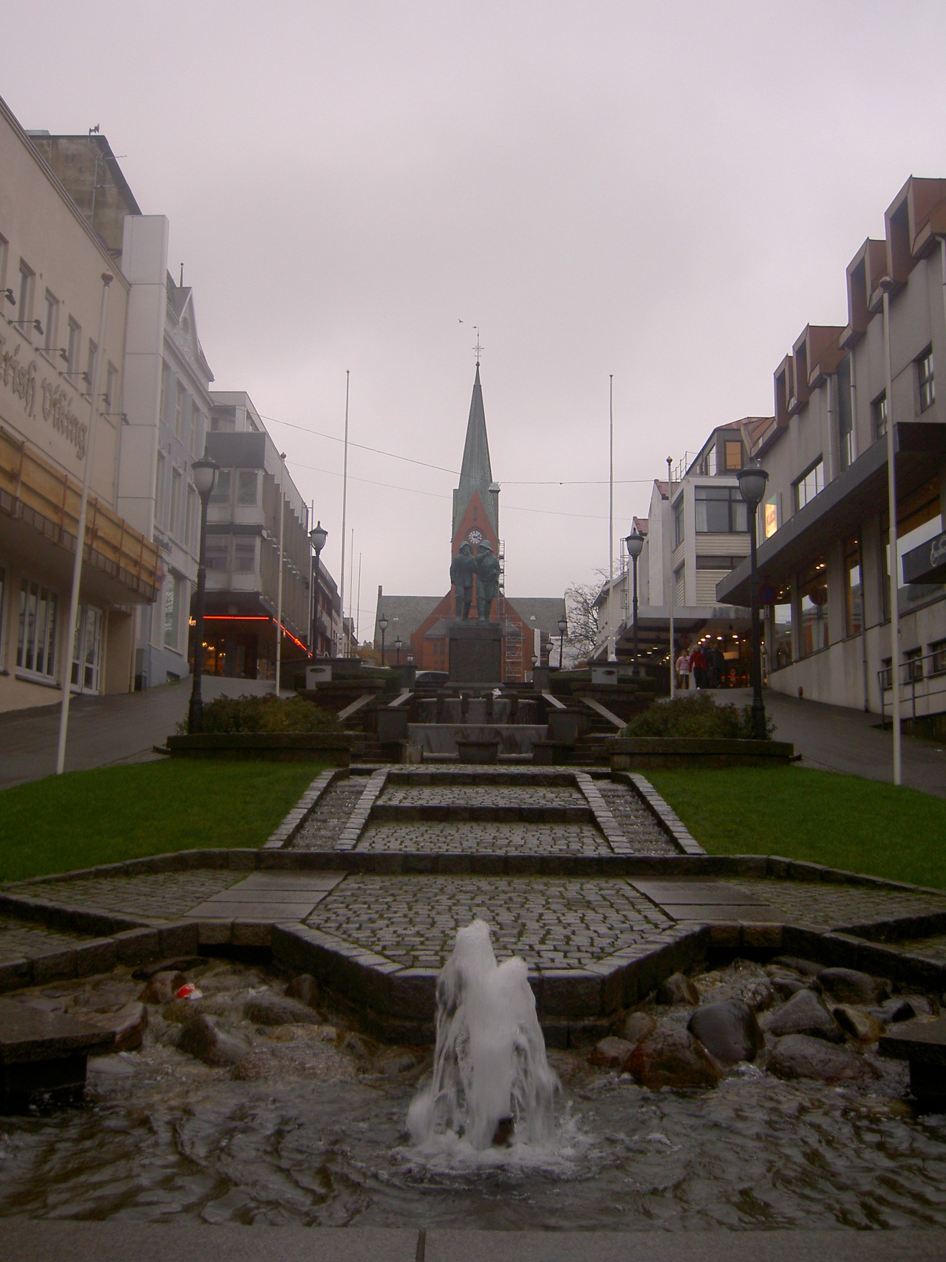 View from the central parts of Haugesund, Norway. Vår Frelsers kirke (Our Savior's Church) in background.